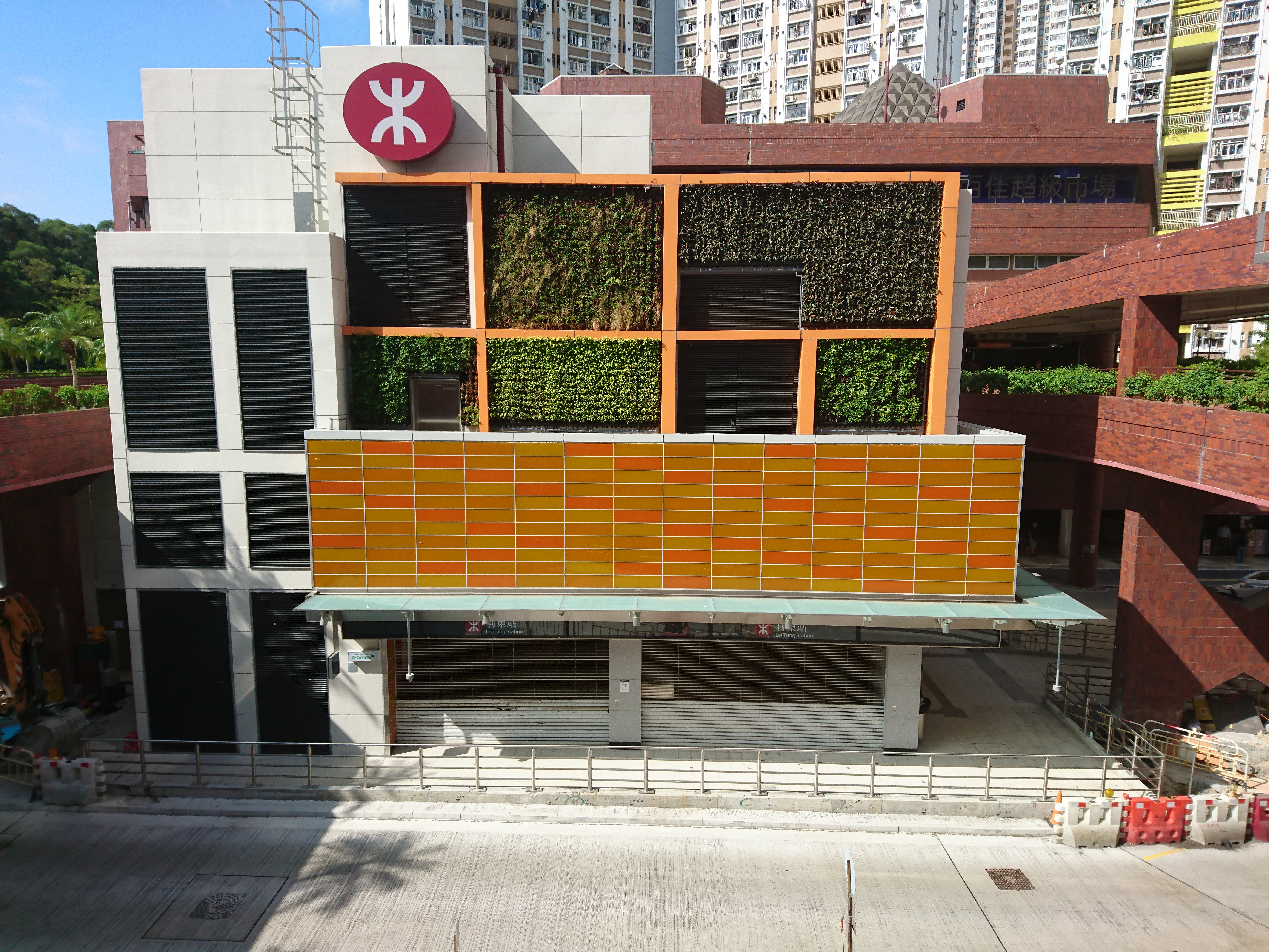 Lei Tung Station Exit B in Nov 2016